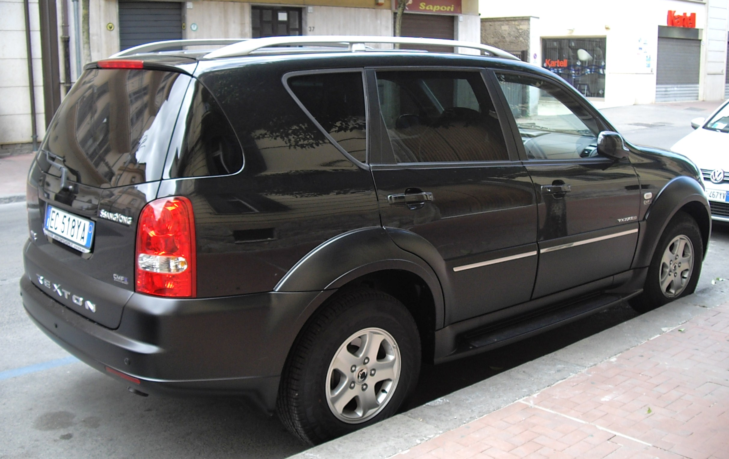 Rexton